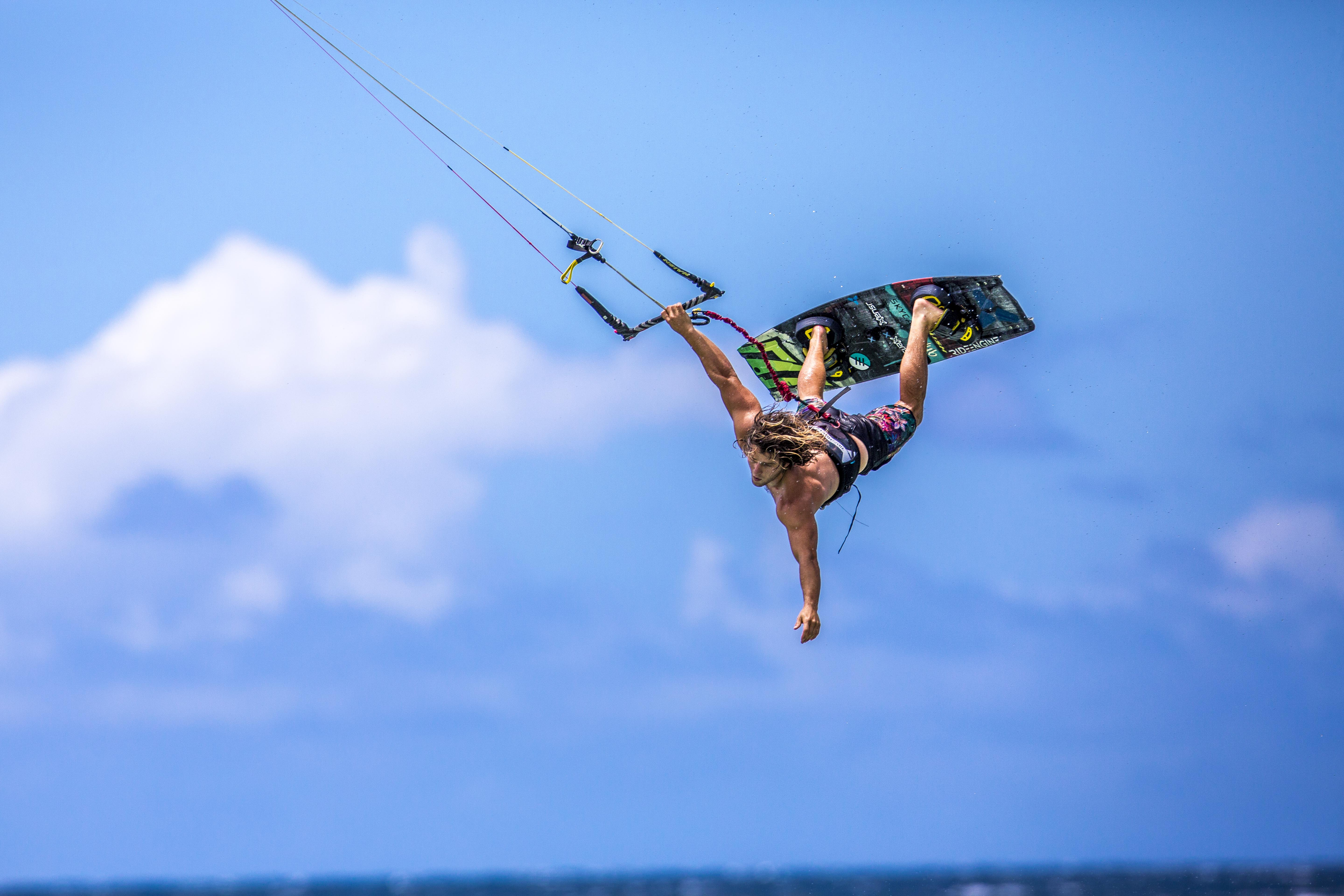 Jesse Richman, kitesurfer